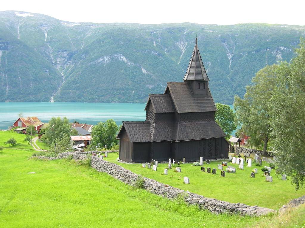 Urnes Stave ChurchUrnes stave church